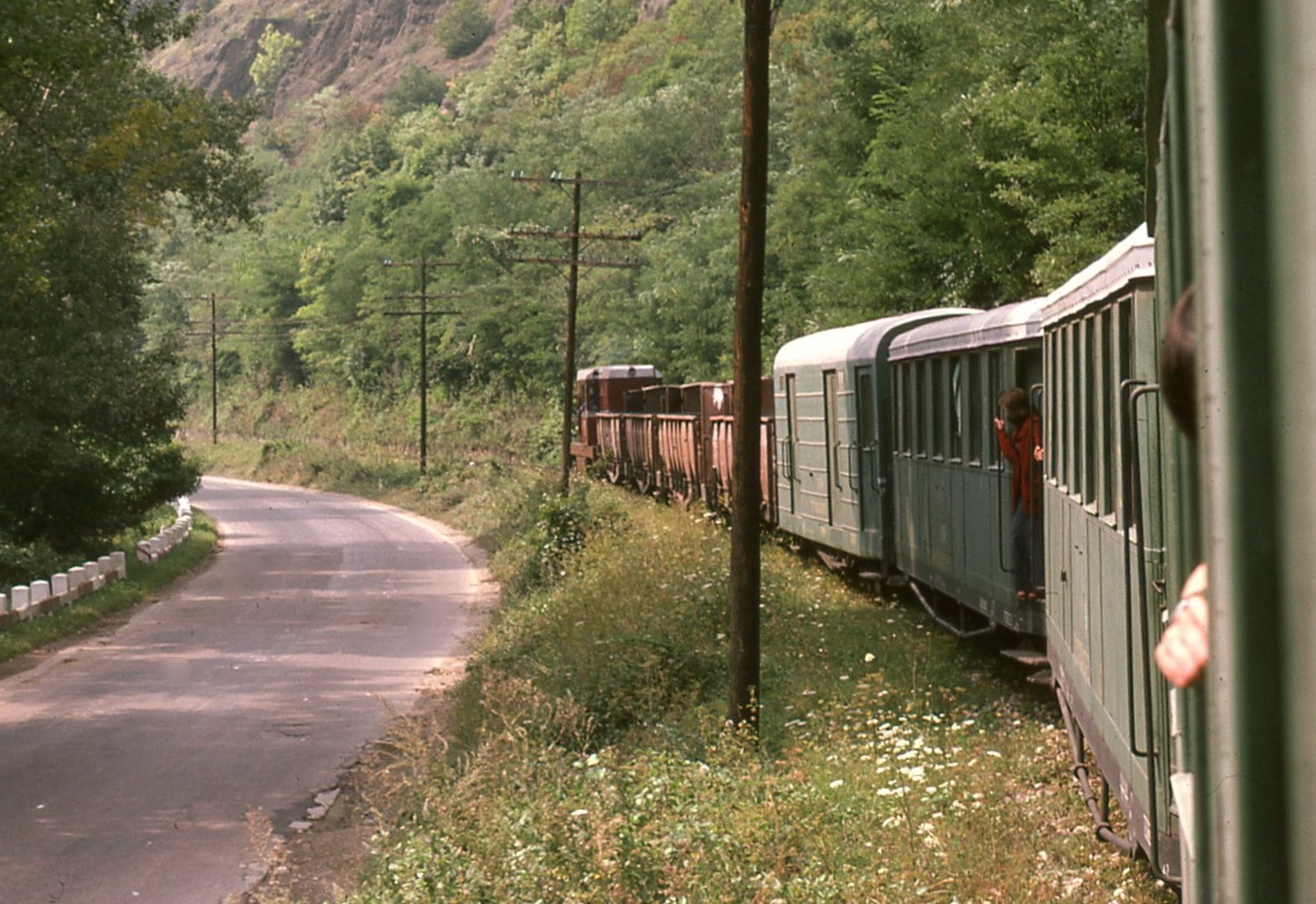 Narrow-gauge train from Turda to Abrud